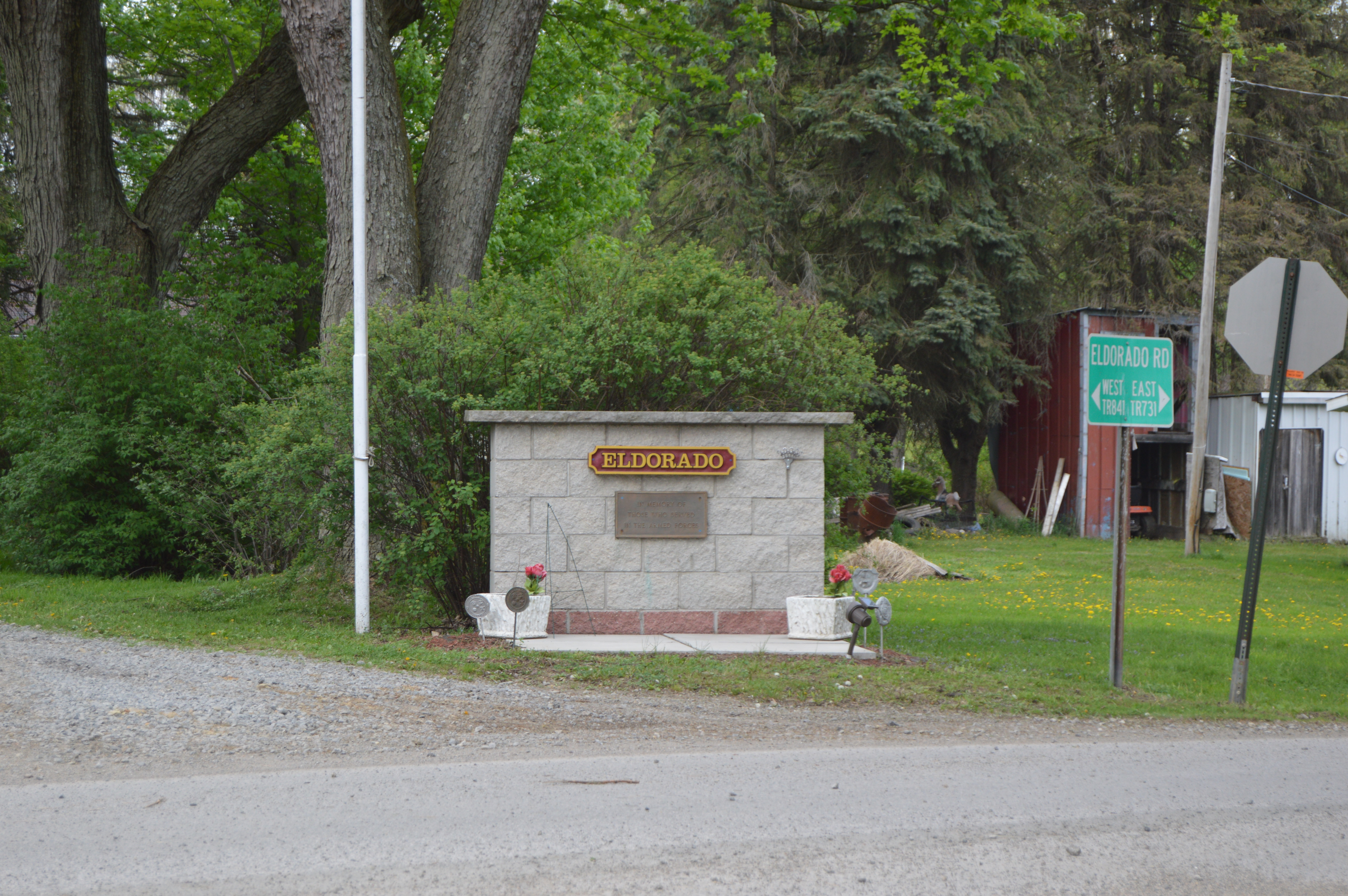 Generic war memorial (i.e. not a memorial to a specific war) at the junction of Eldorado and Annisville Roads in Eldorado, Butler County, Pennsylvania, United States.